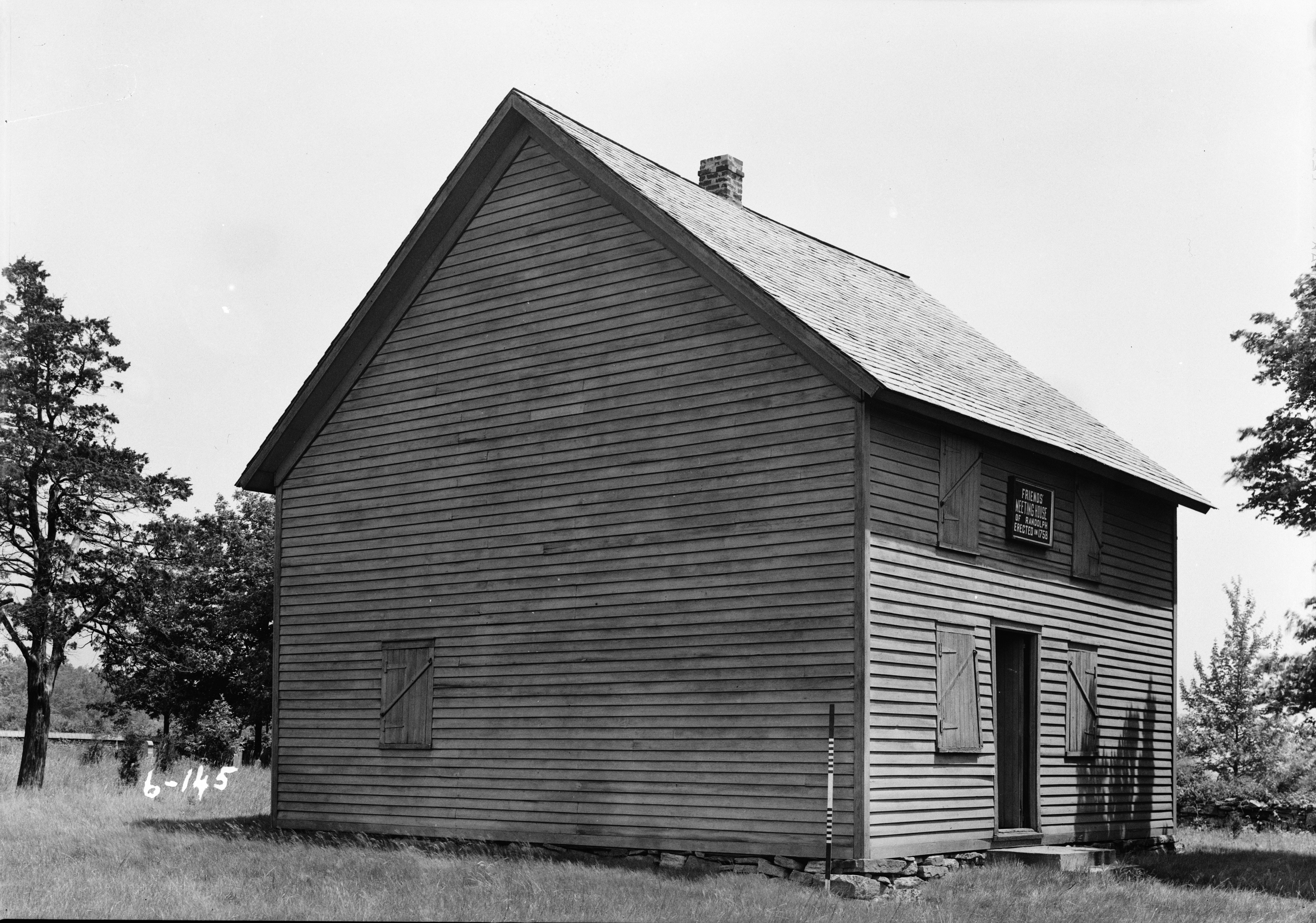 June 3, 1936 Friends Meetinghouse of Randolph, Dover, Morris County, NJ